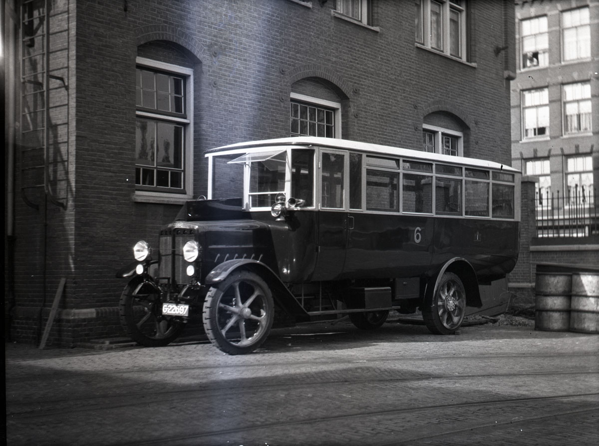 Bus in Amsterdam 1922. Photo Nr: 2157-15.